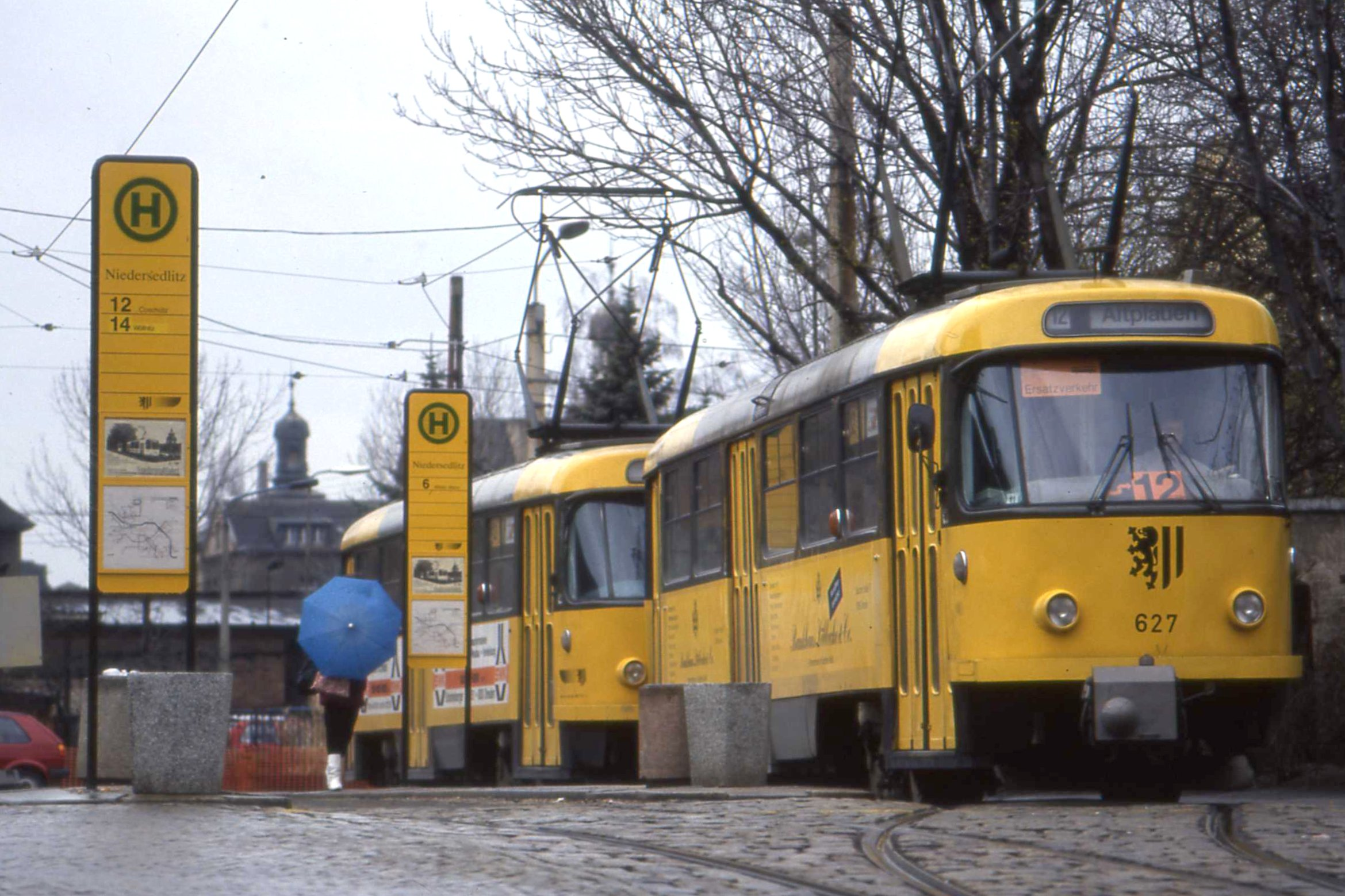 A wet day in the south-eastern suburbs of the city. THe routes 6 and 14 along with the 12 serve this tram stop in Niedersedlitz.